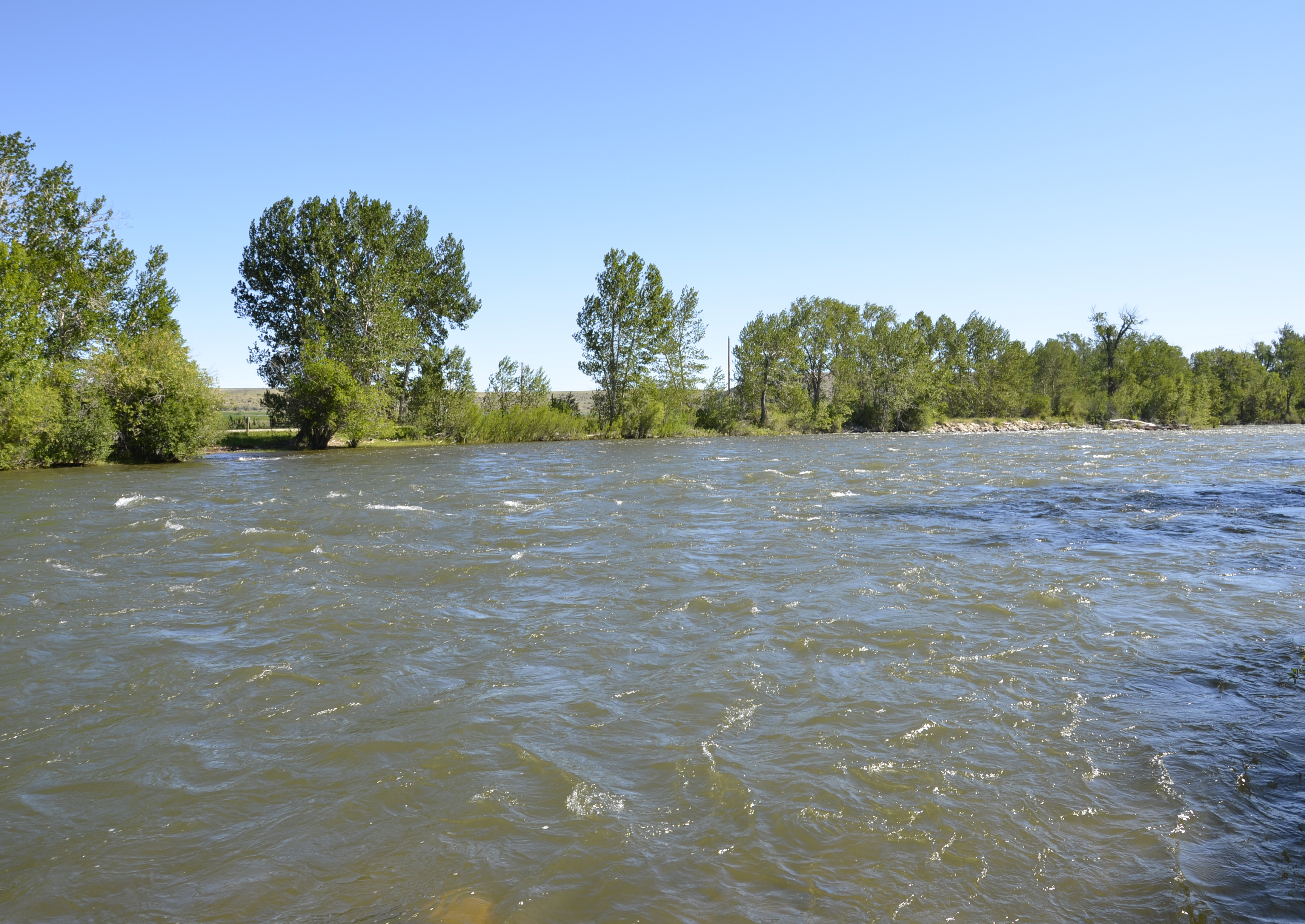 Stillwater River North of Absarokee, MT. June 19, 2012.